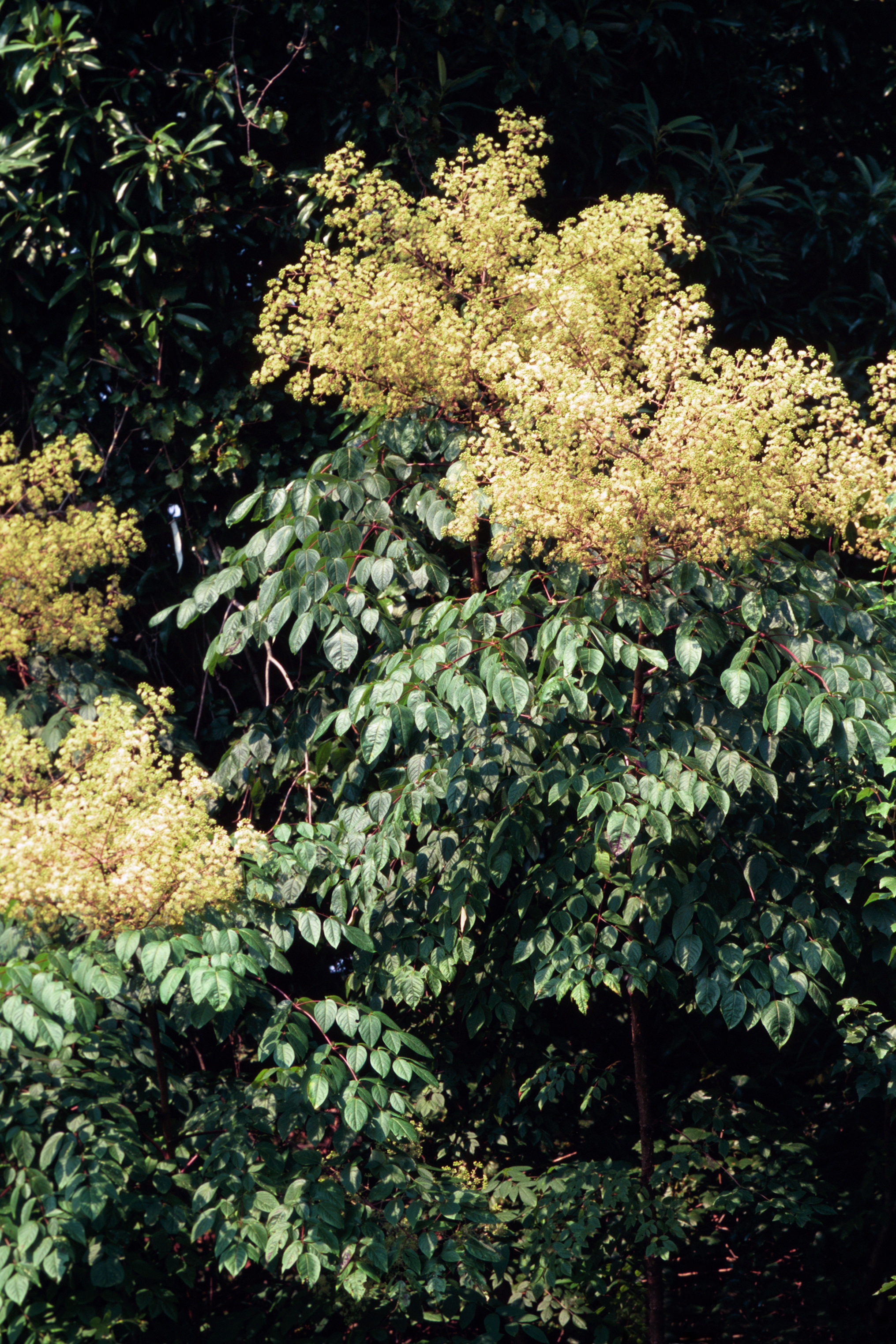 Aralia spinosa L. - devil's walkingstick - Flower(s) - August. - United States